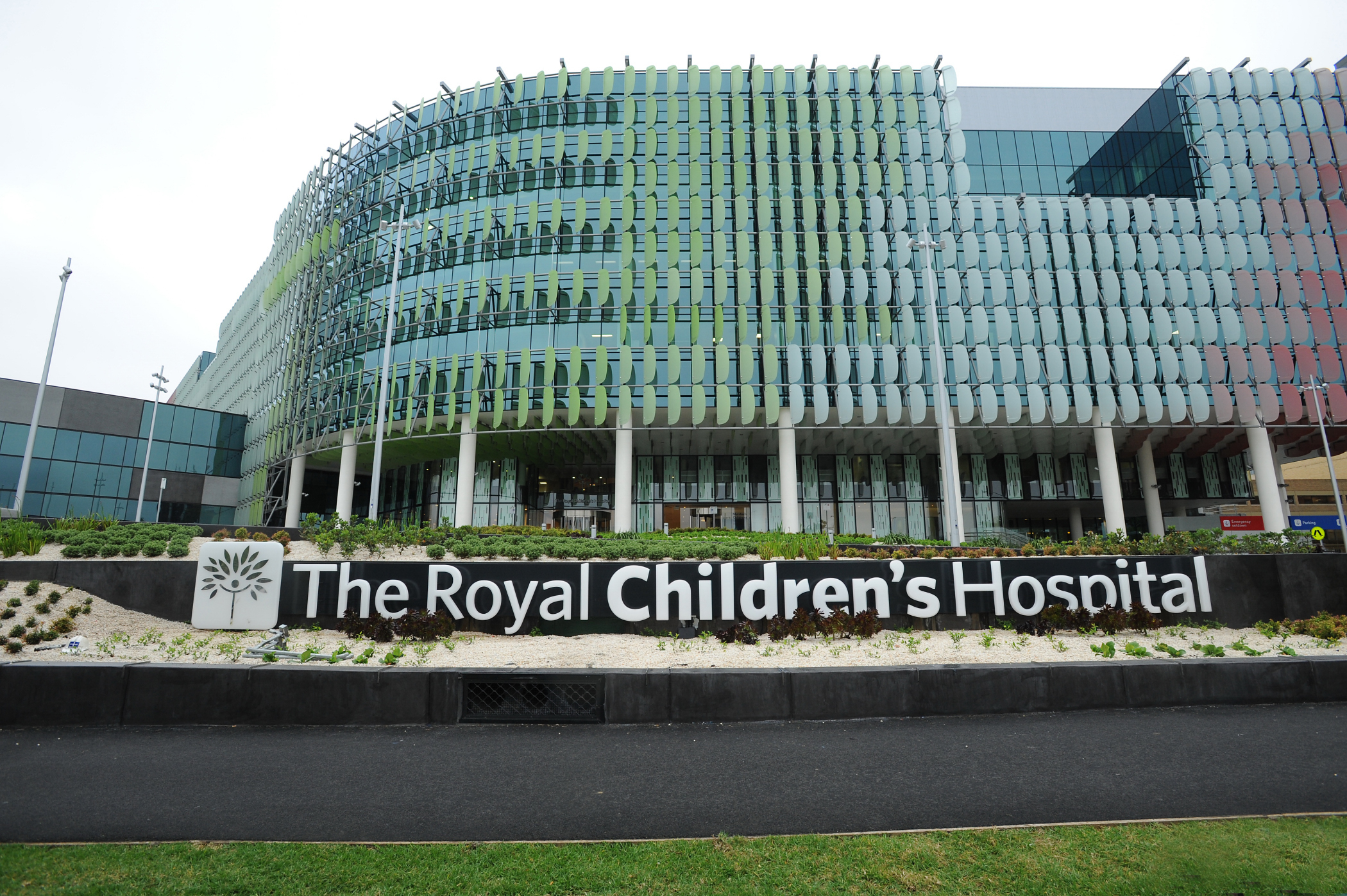 Photo of the front of The Royal Children's Hospital, Melbourne